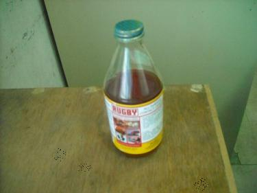 A bottle used by boys.